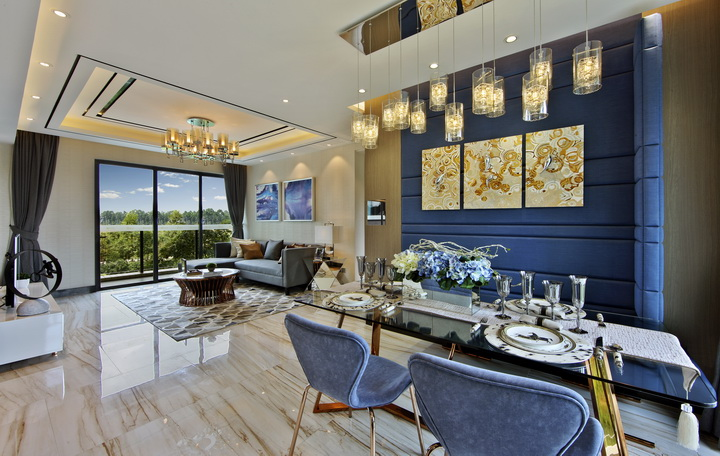 J Metropolis 嘉匯城